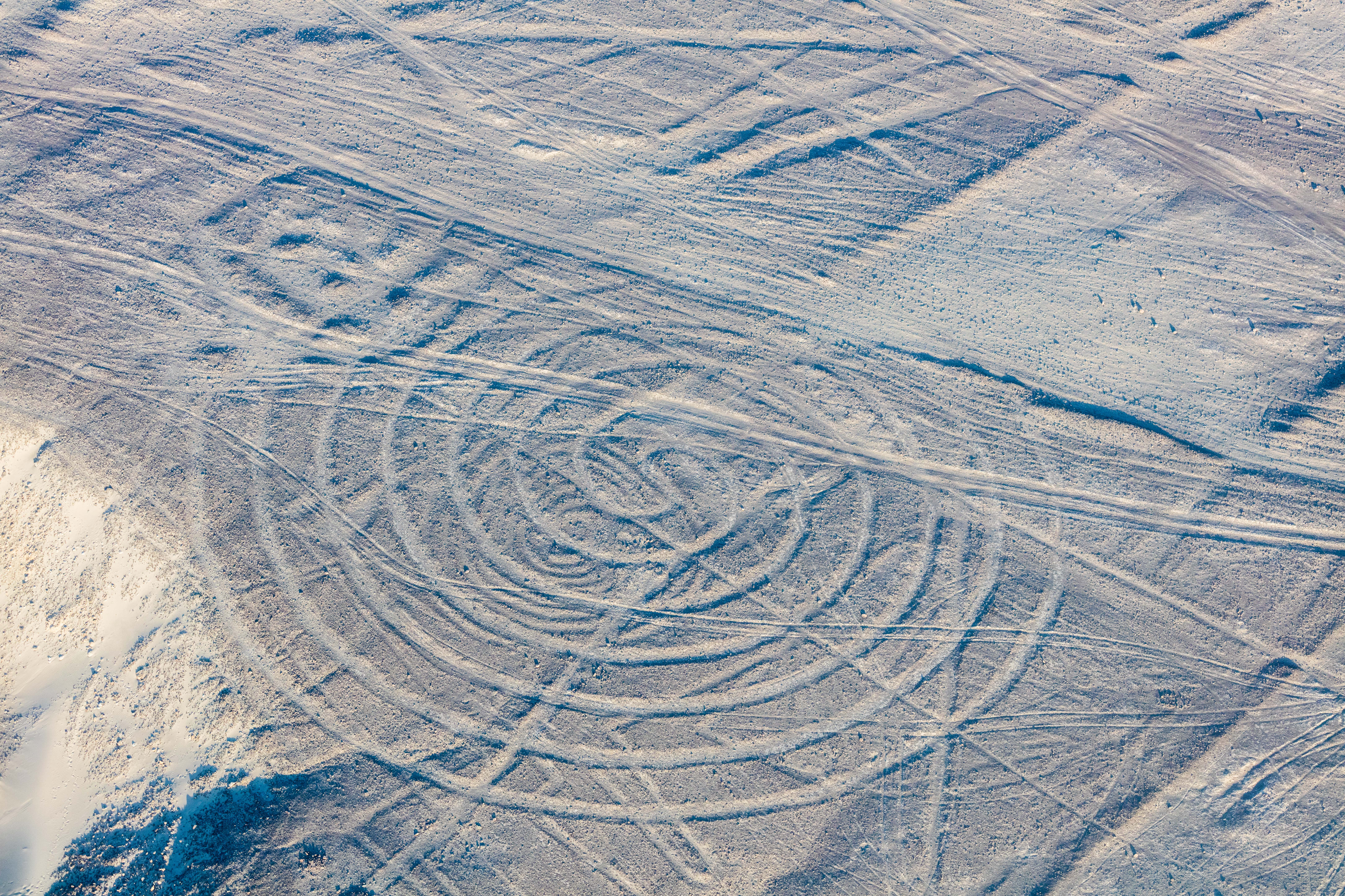 Aerial view of the "Spiral", one of the geoglyphs of the Nazca Lines, which are located in the Nazca Desert, near the city of Nazca, in southern Peru. The geoglyphs of this UNESCO World Heritage Site (since 1994) are spread over a 80 km (50 mi) plateau between the towns of Nazca and Palpa and are, according to some studies, between 500 B.C. and 500 A.D. old. This place is a UNESCO World Heritage Site, listed as Nazca Lines.